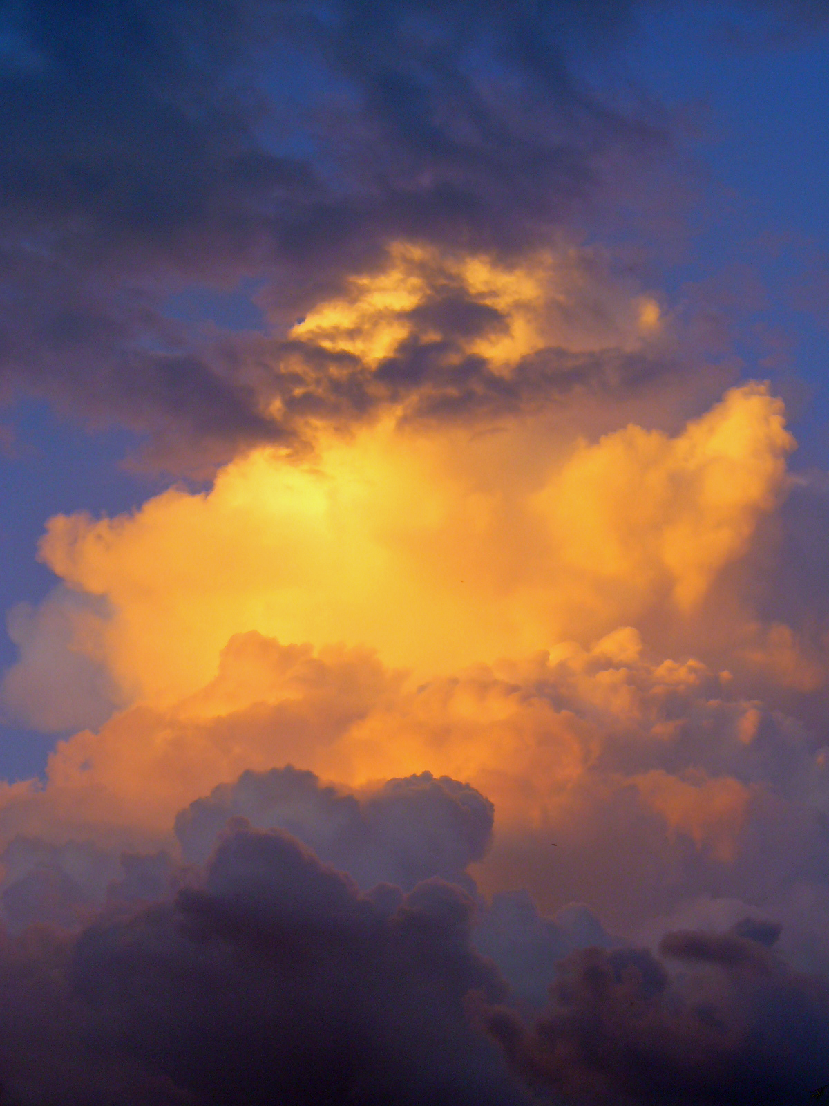 Coloured thunderstorm cloud over Puerto de la Cruz,Tenerife